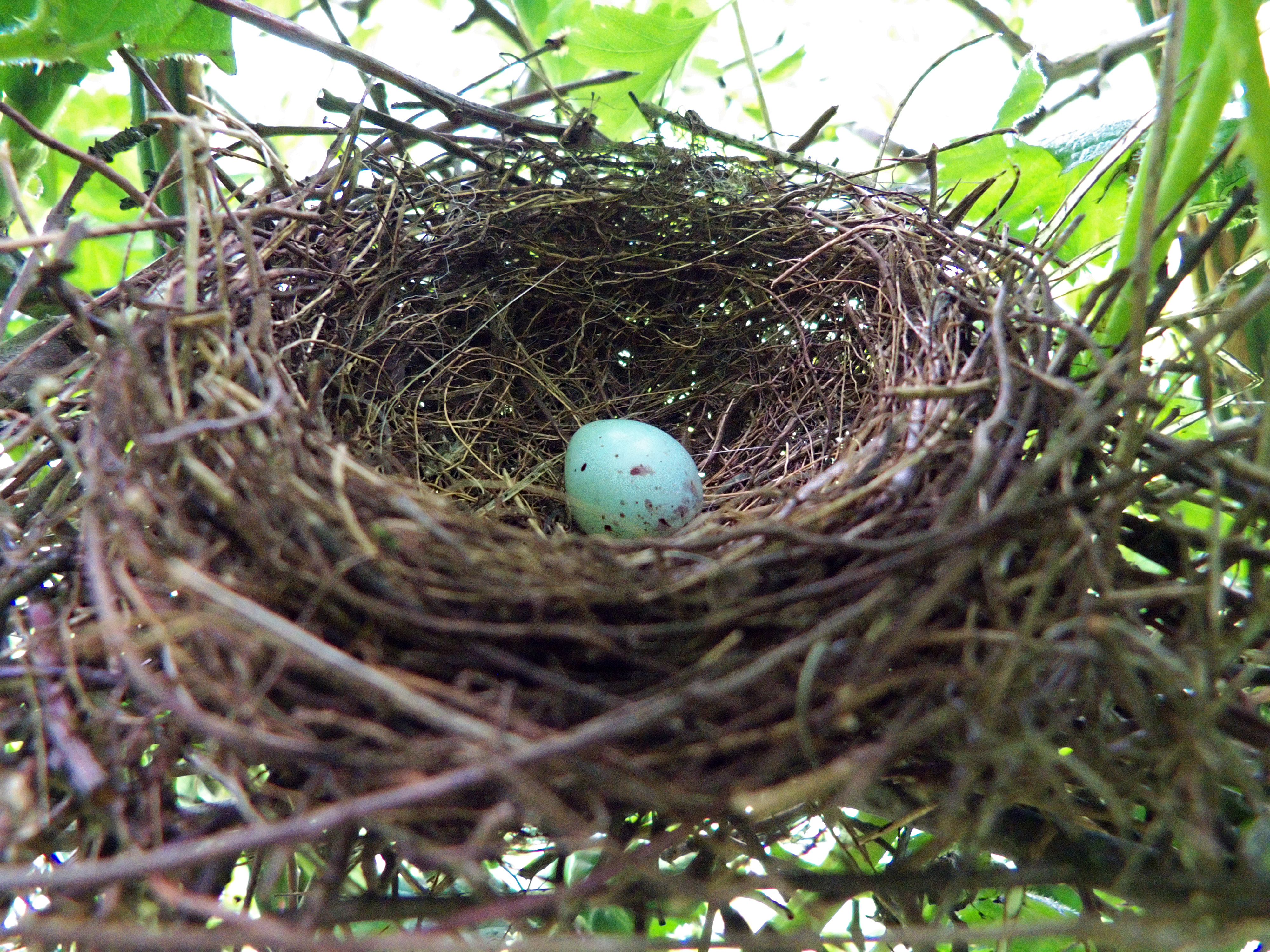 First egg laid Latin name Pyrrhula pyrrhula Family Finches (Fringillidae) Overview The male is unmistakable with his bright pinkish-red breast and cheeks, grey... Where to see them ... When to see them All year round. What they eat Seeds, buds and insects (for young).